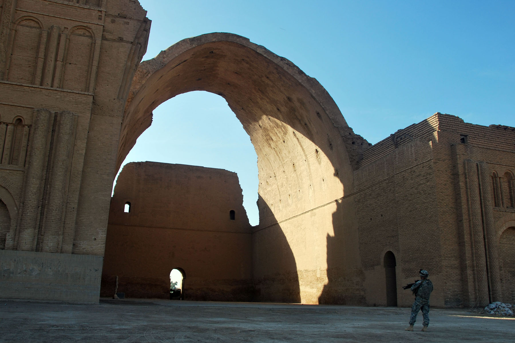 A soldier stands in front of the Arch of Ctesiphon, built by the Persians nearly 1,500 years ago. The arch used to be an important tourist attraction, and Iraqi authorities hope to revive that tourism in the coming years.